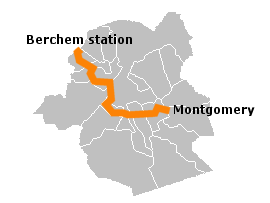 Itinerary of tramway line 82 in Brussels